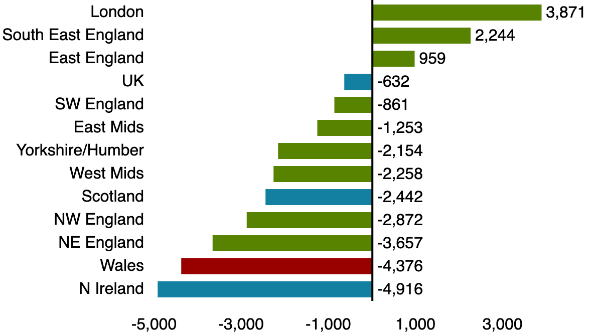 see title